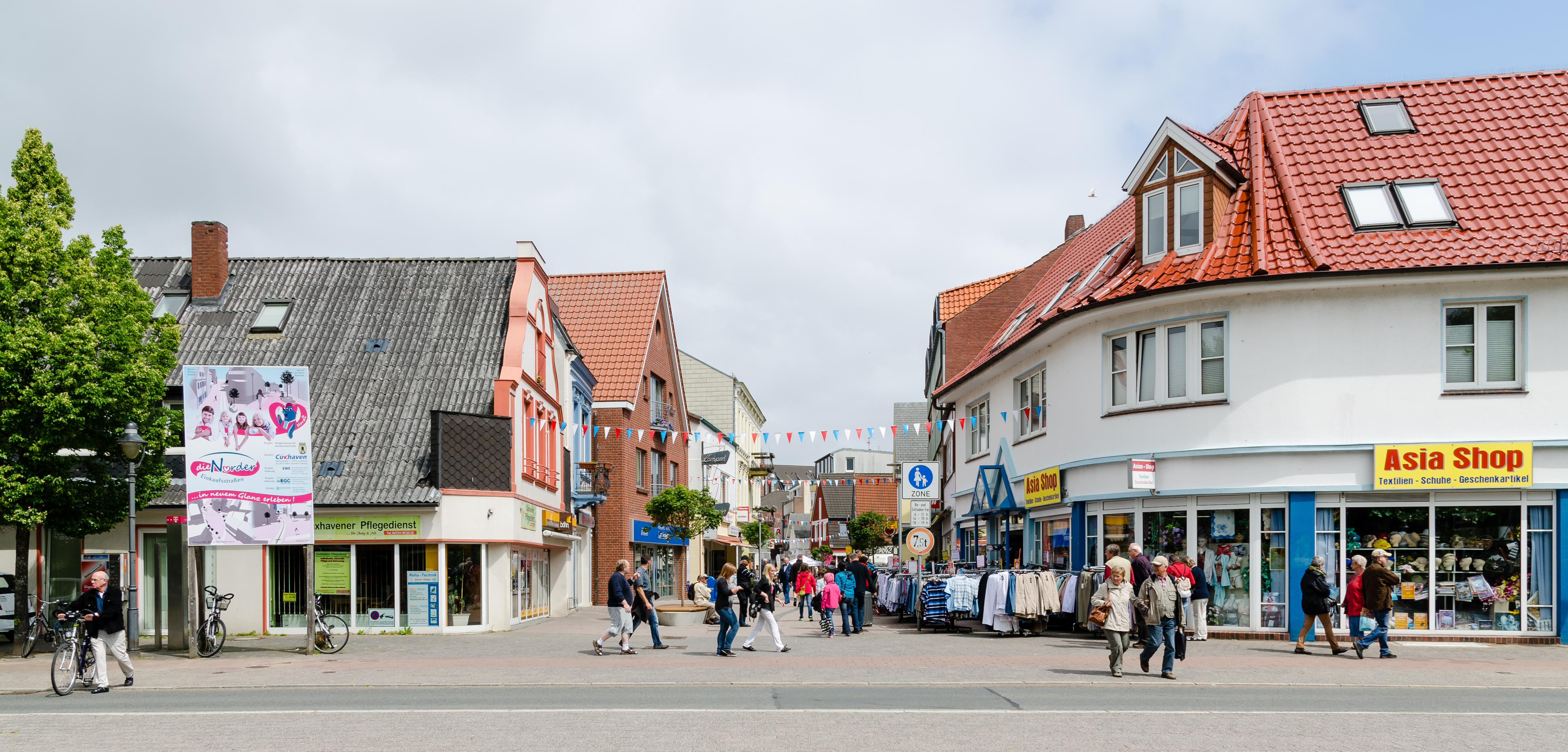 Central shopping street Nordersteinstraße in Cuxhaven